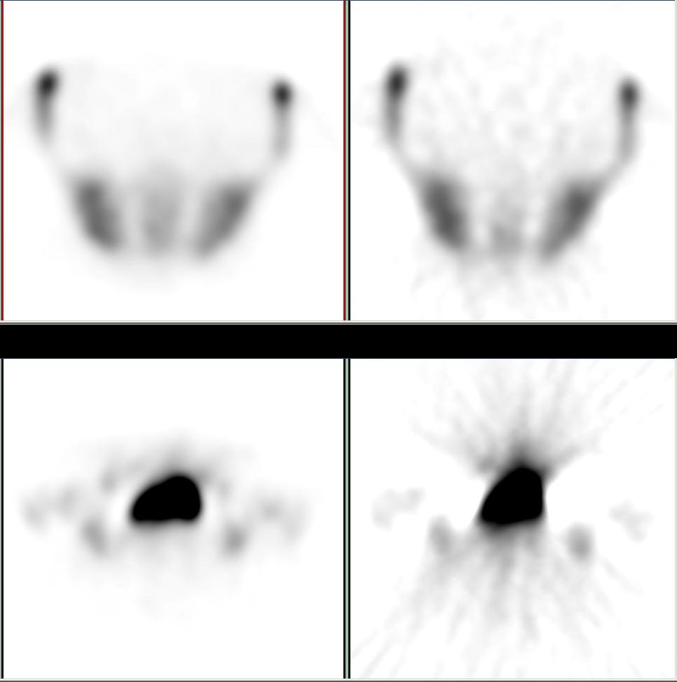 image example showind difference between filtered backprojection and iterative reconstruction method